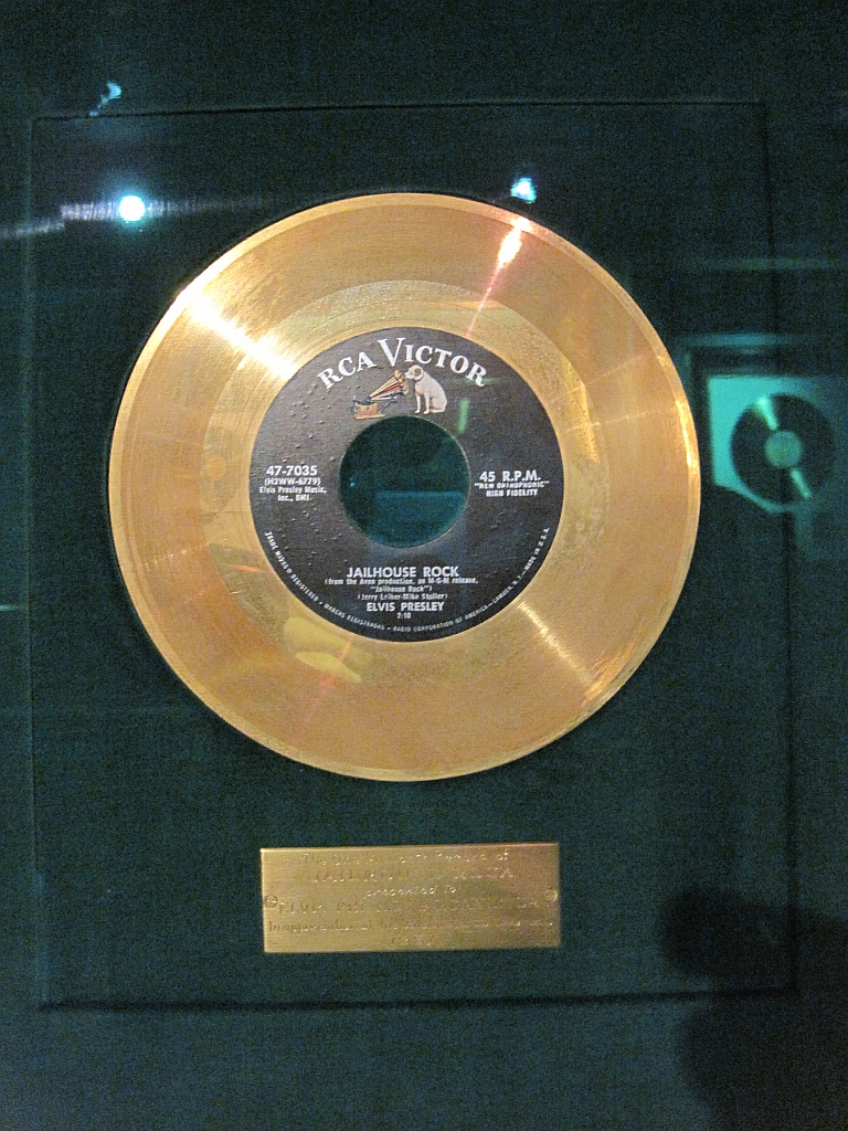 Graceland, Memphis, Tennessee. Trophy room. Gold record "Jailhouse Rock"